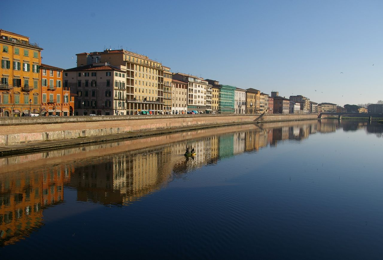 Pisa and river Arno